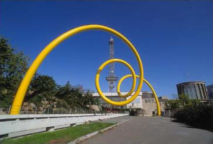 Looping - Sculpture in public space by Ursula Sax, Berlin, Germany, Messe Avus Berlin